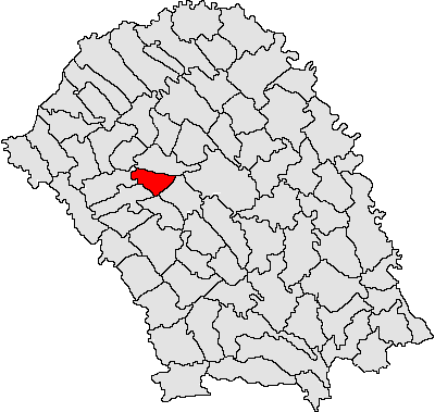 Map of the limits of the commune of Dimăcheni, Botoșani County, Romania